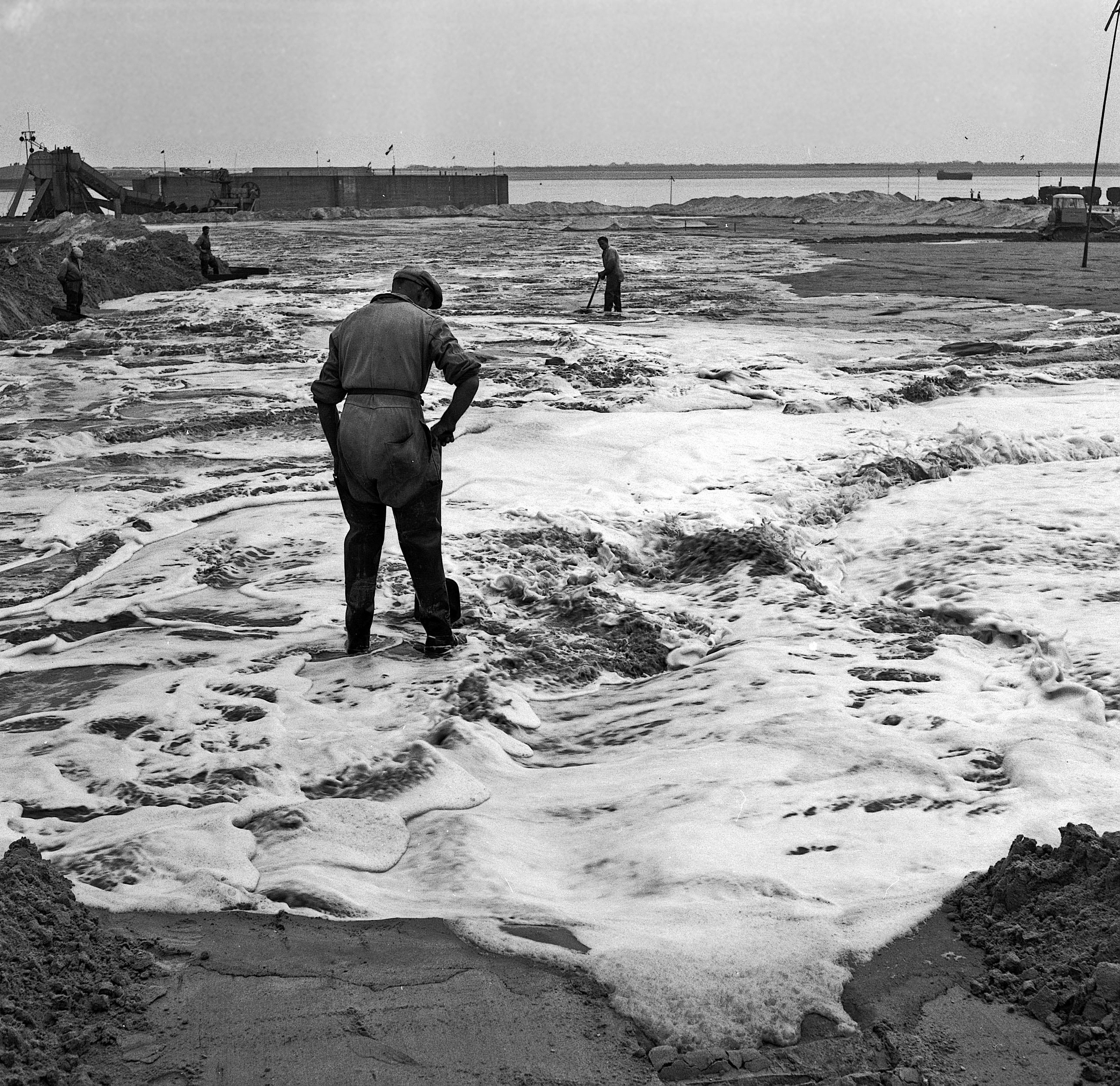 Delta works near Vrouwenpolder (Veere)